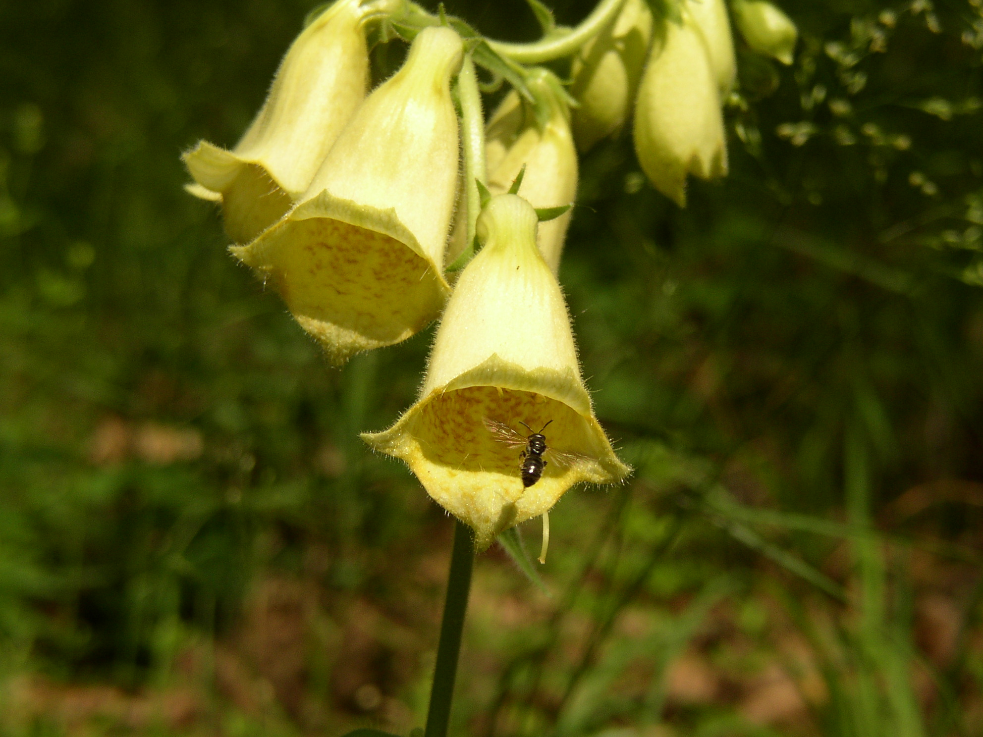 My own photo, 2003 june, in Hungary, Dobogókő. Unfortunately I am neither flower nor insect scientist so this picture lacks scientific background (eg. what kind of flower and insect; that's an open question to anyone with knowledge), but good enough for an illustration I hope. The flower is Digitalis grandiflora (in Hungarian "Sárga gyűszűvirág"). (Thanks to Kovács Árpád @ huwiki)